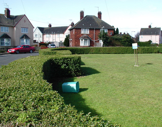 Dingley Close, Inglemire Cul-de-sac off Cranbrook Avenue in north Hull. There's a patch of grass encircled by the road, so naturally the city council have put up signs prohibiting ball games.